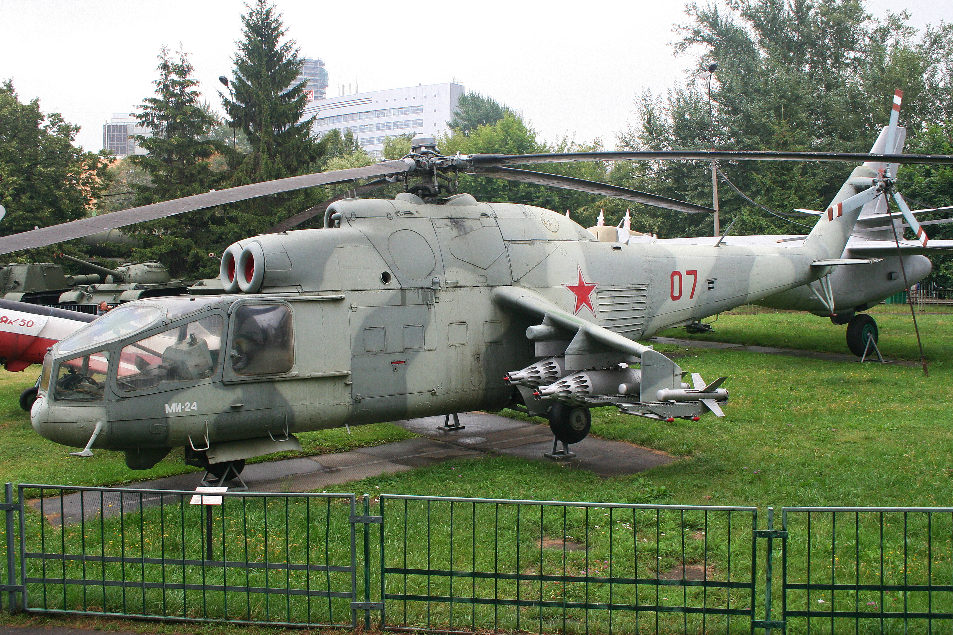 msn 3202109. On display at the Central Armed Forces Museum, Moscow, Russia. 15-8-2012